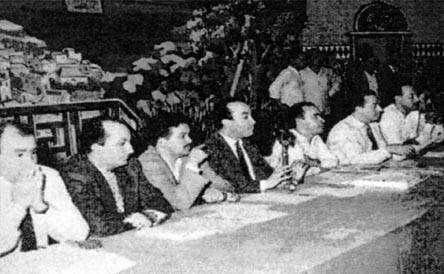 Picture of the Central Committee founding the UNFP